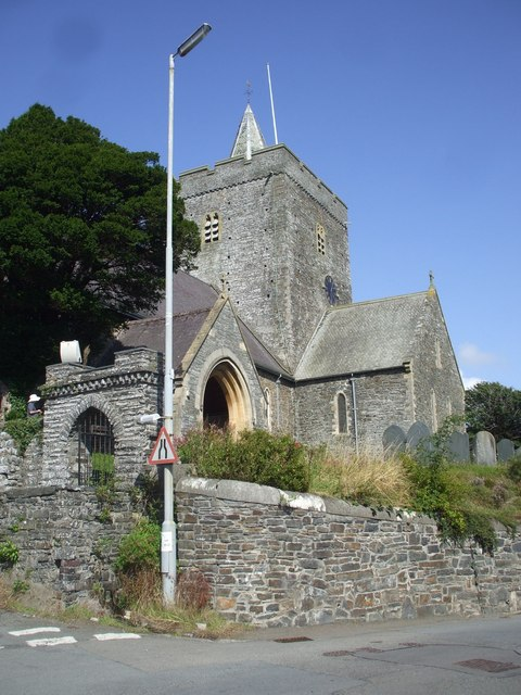 St Padarn's church, Llanbadarn Fawr